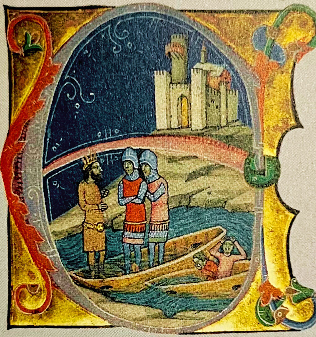 The sinking of the imperial ships at Pressburg